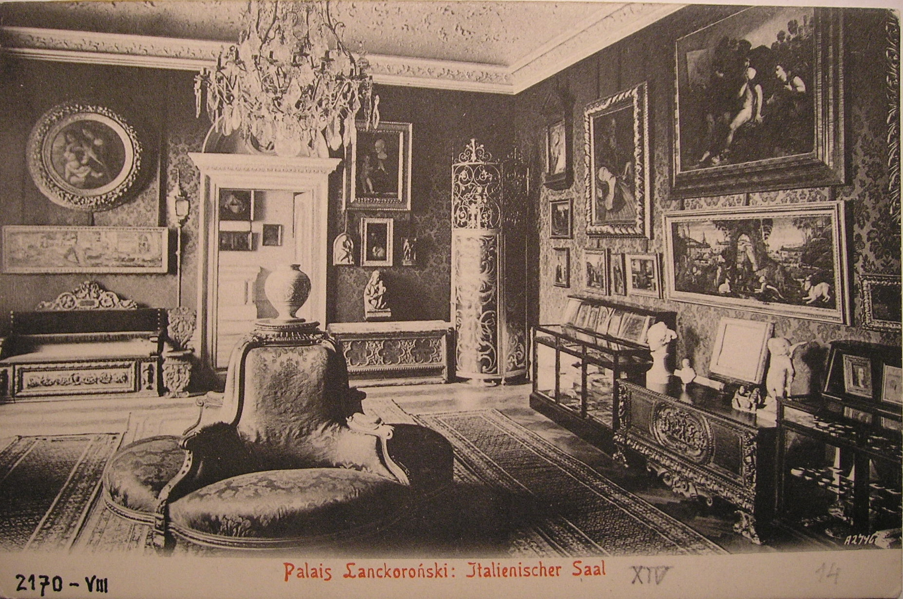 Image of the Palais Lanckoroński in Vienna, which was the private residence of Count Lanckoroński and his vast art collection, which was open to the public. The image is part of a post-card series that were made specifically for the building and its collection.